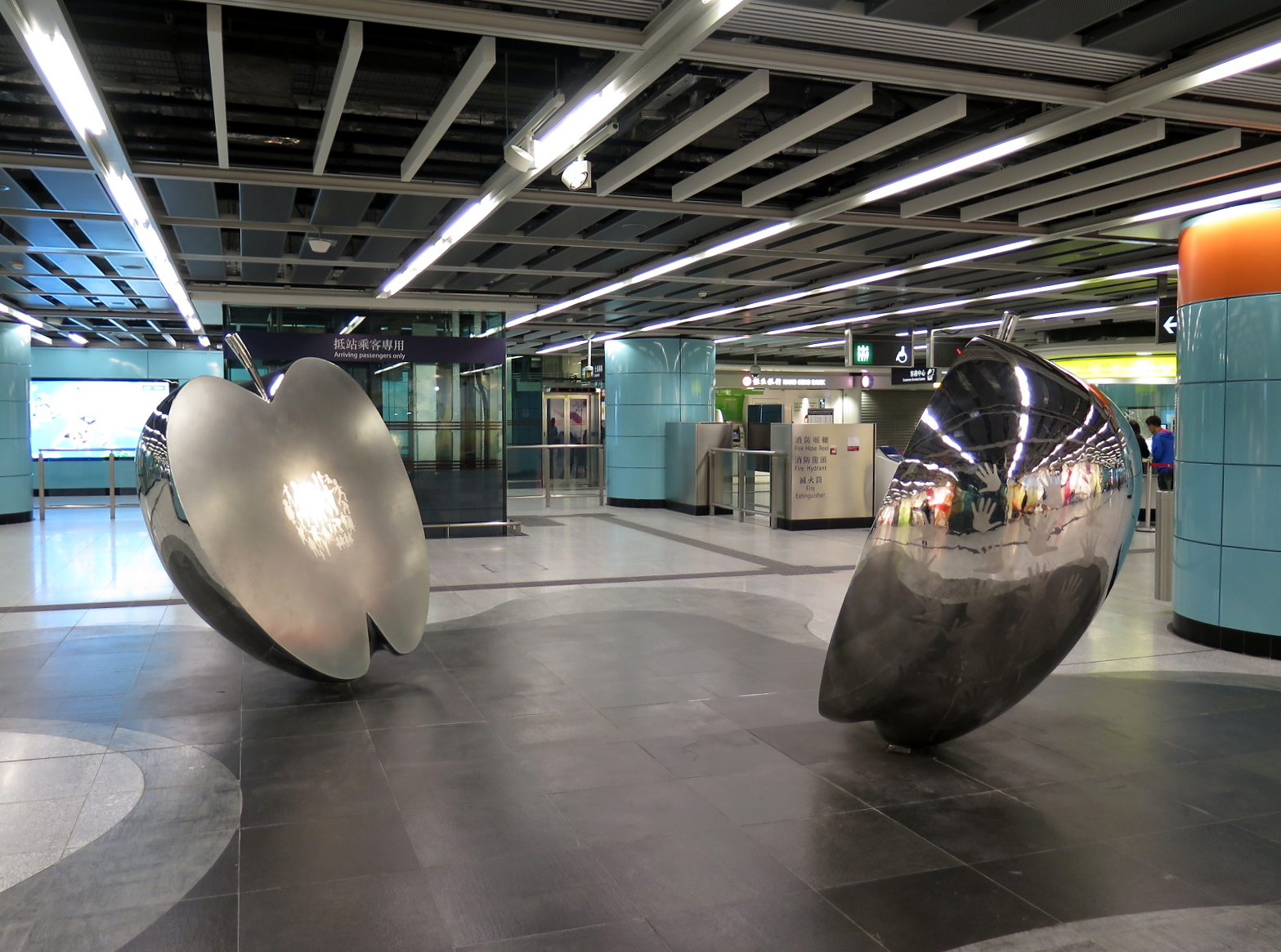 Kennedy Town Station Sculpture